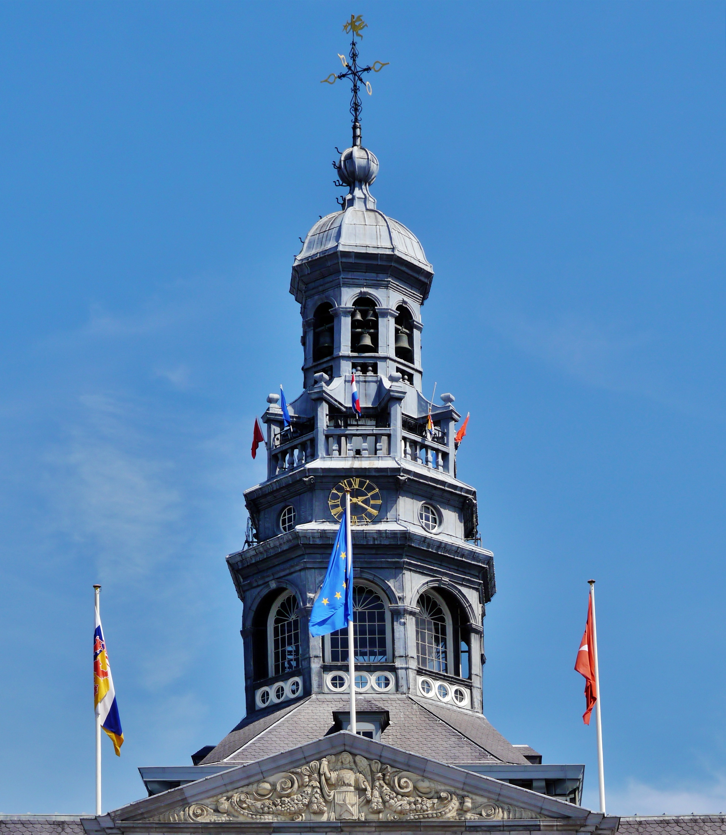 Tower of the City Hall, Maastricht, Province of Limburg, Netherlands